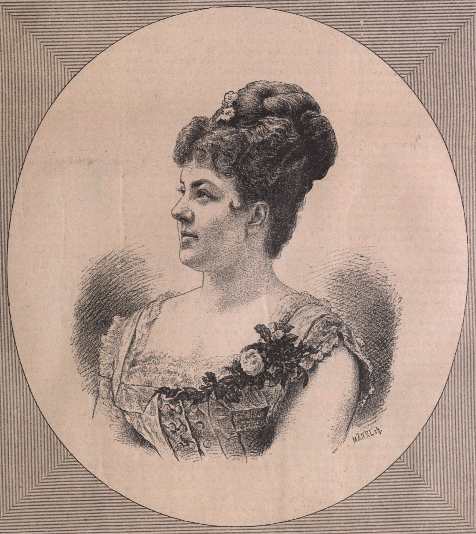 Portrait of Mila Kupfer-Berger (1852-1905), Austrian singer.